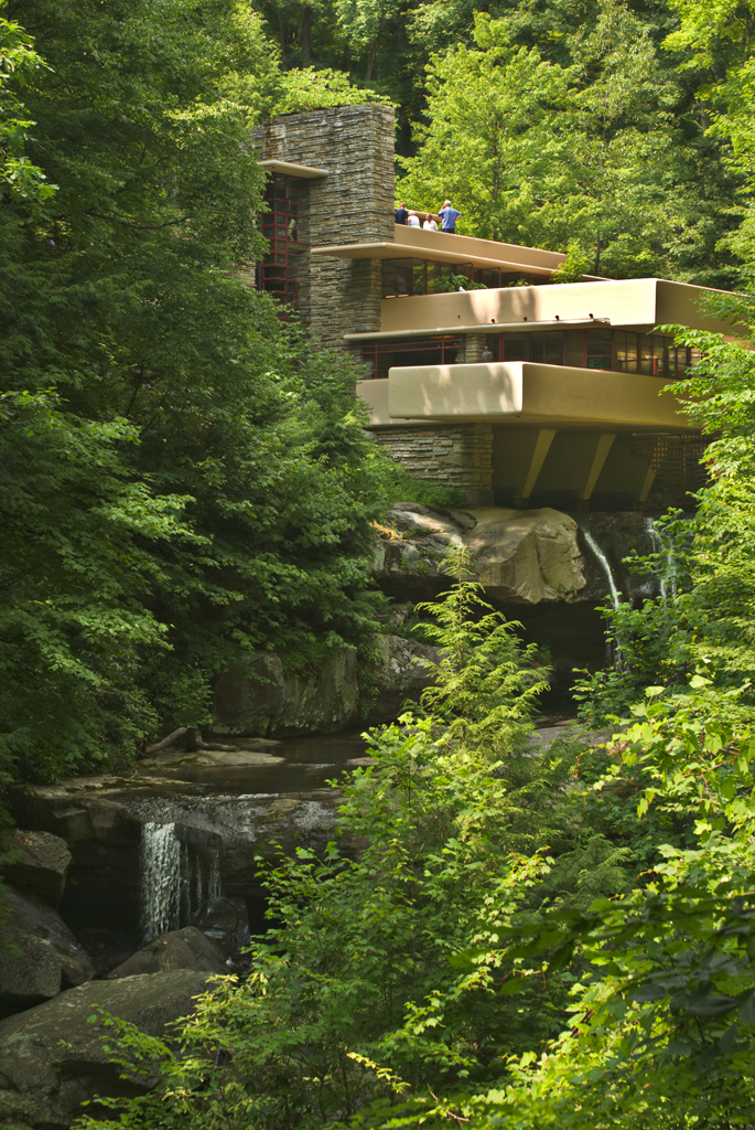 Fallingwater by Frank Lloyd Wright